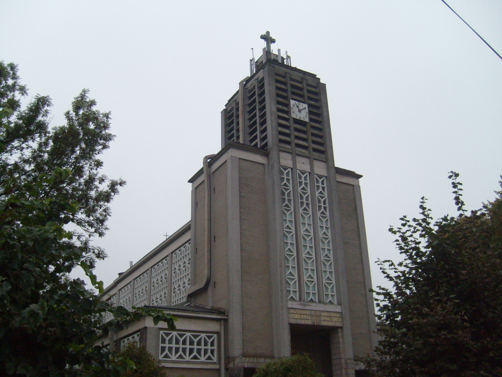 The church in Gąbin, Poland